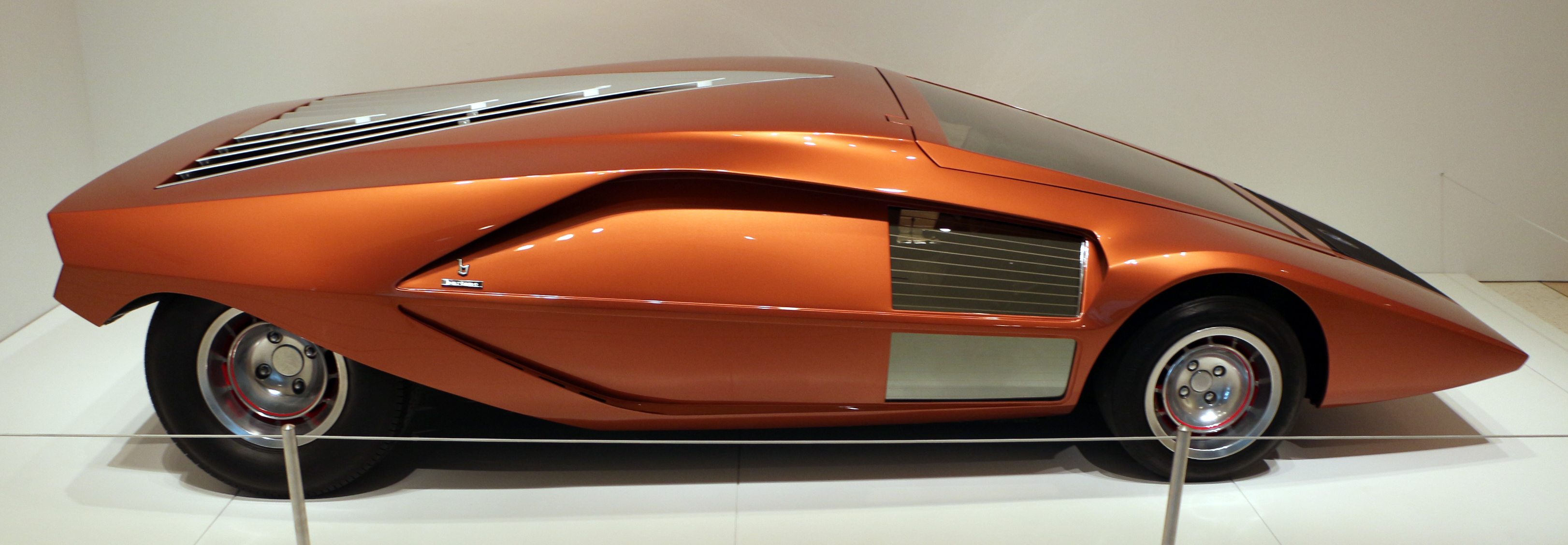 Metalware in the Indianapolis Museum of Art